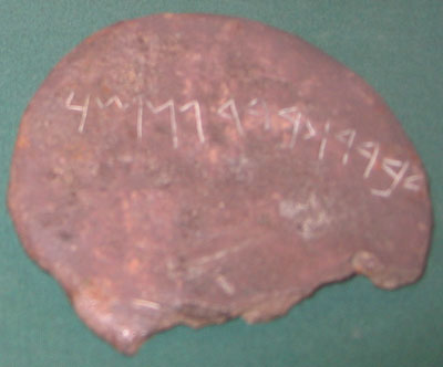 An 8th century BC silver ingot inscribed with the name of King Bar-Rakib son of Panammu II, the king of Sam'al (modern Zenjirli), now at the British Museum.